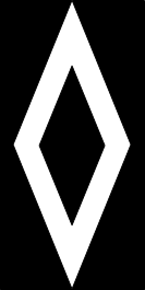 HOV Diamond